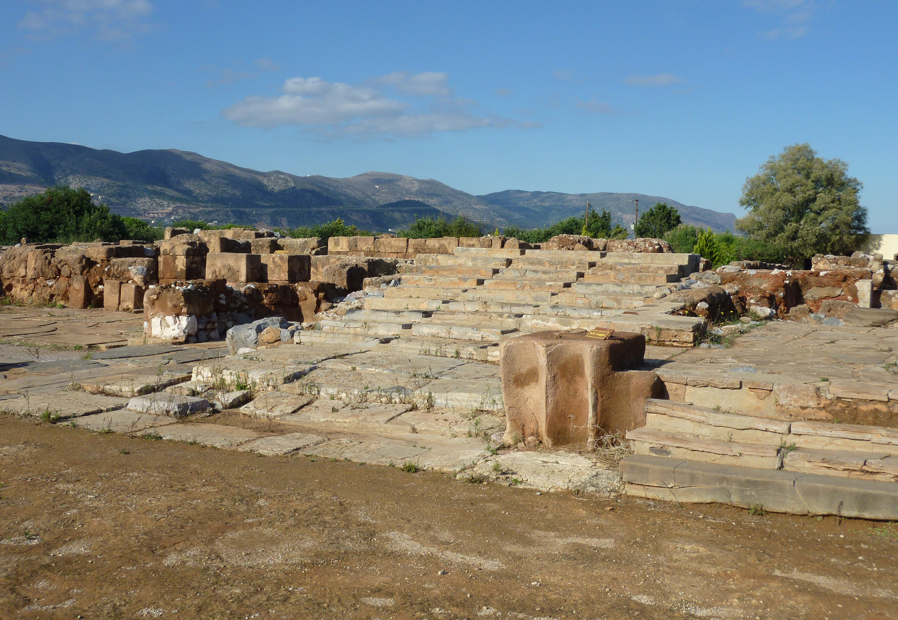 The Grand Staircase in the Palace of Malia, Crete, Greece